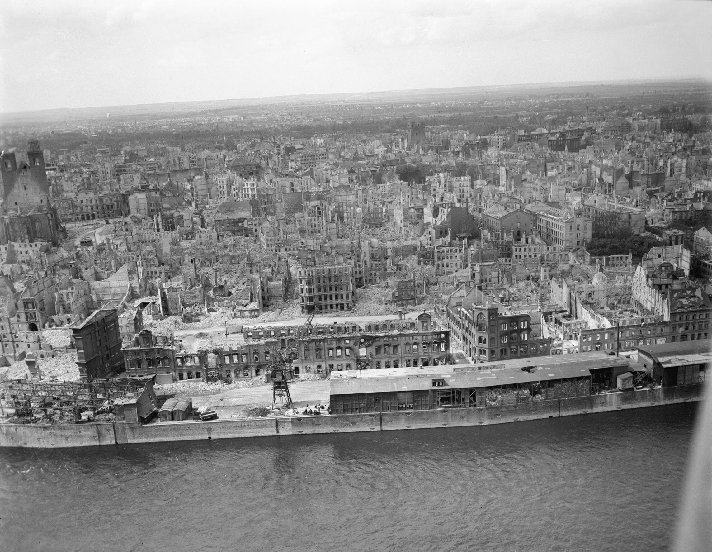 Royal Air Force Bomber Command, 1942-1945. Low-level view of the centre of Magdeburg from over the River Elbe, showing the severe bomb damage to buildings and warehouses in the vicinity of the wharves.